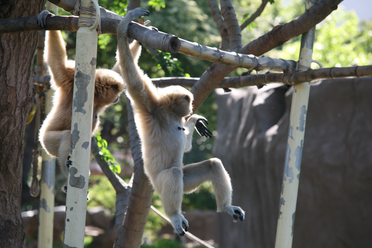 White-Handed Gibbon (Hylobates lar)